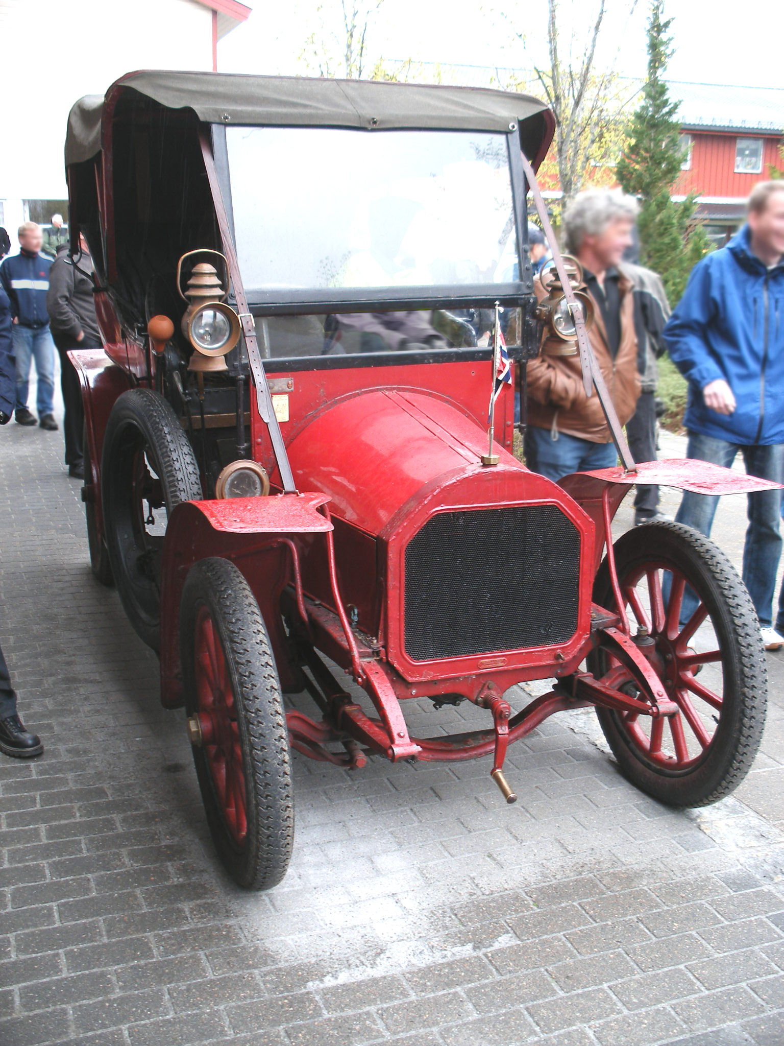 Old bus from Norway. The first norwegian bus (not the oldest). UNIC (France) 1907. Chassis build in Kristiania, Norway (= Oslo).